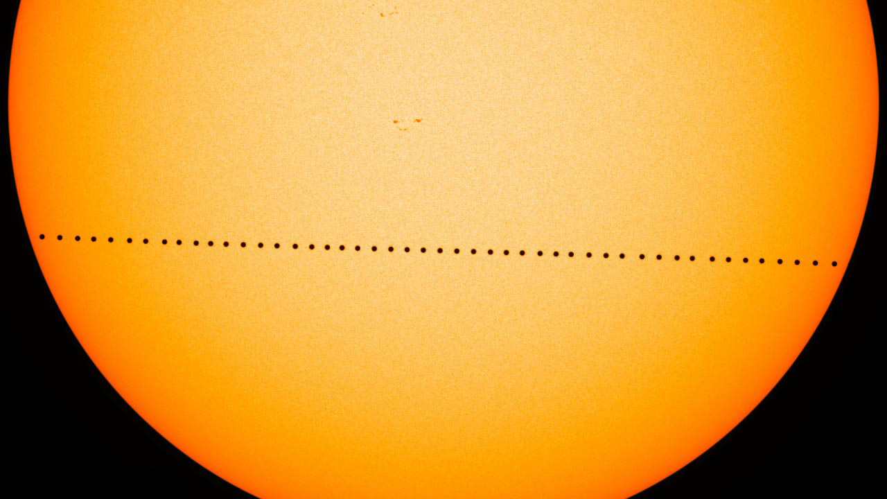 On May 9, 2016, Mercury passed directly between the sun and Earth. This event – which happens about 13 times each century – is called a transit. NASA’s Solar Dynamics Observatory, or SDO, studies the sun 24/7 and captured the entire seven-and-a-half-hour event. This composite image of Mercury’s journey across the sun was created with visible-light images from the Helioseismic and Magnetic Imager on SDO. Image Credit: NASA's Goddard Space Flight Center/SDO/Genna Duberstein NASA image use policy. NASA Goddard Space Flight Center enables NASA’s mission through four scientific endeavors: Earth Science, Heliophysics, Solar System Exploration, and Astrophysics. Goddard plays a leading role in NASA’s accomplishments by contributing compelling scientific knowledge to advance the Agency’s mission. Follow us on Twitter Like us on Facebook Find us on Instagram